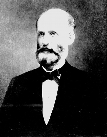 William E. Smith (1824-1883)